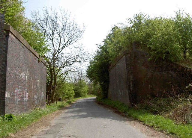 Former bridge abutments on Newhall Lane